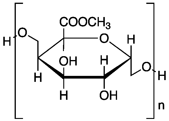 pectin